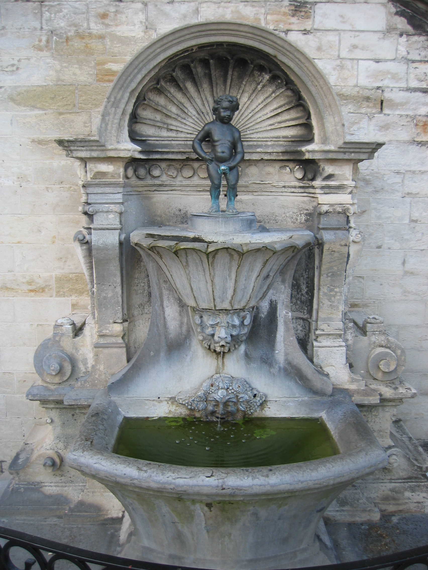 Statue of Manneken pis in Geraardsbergen, Belgium. Picture by Tim Bekaert (July 12, 2005)